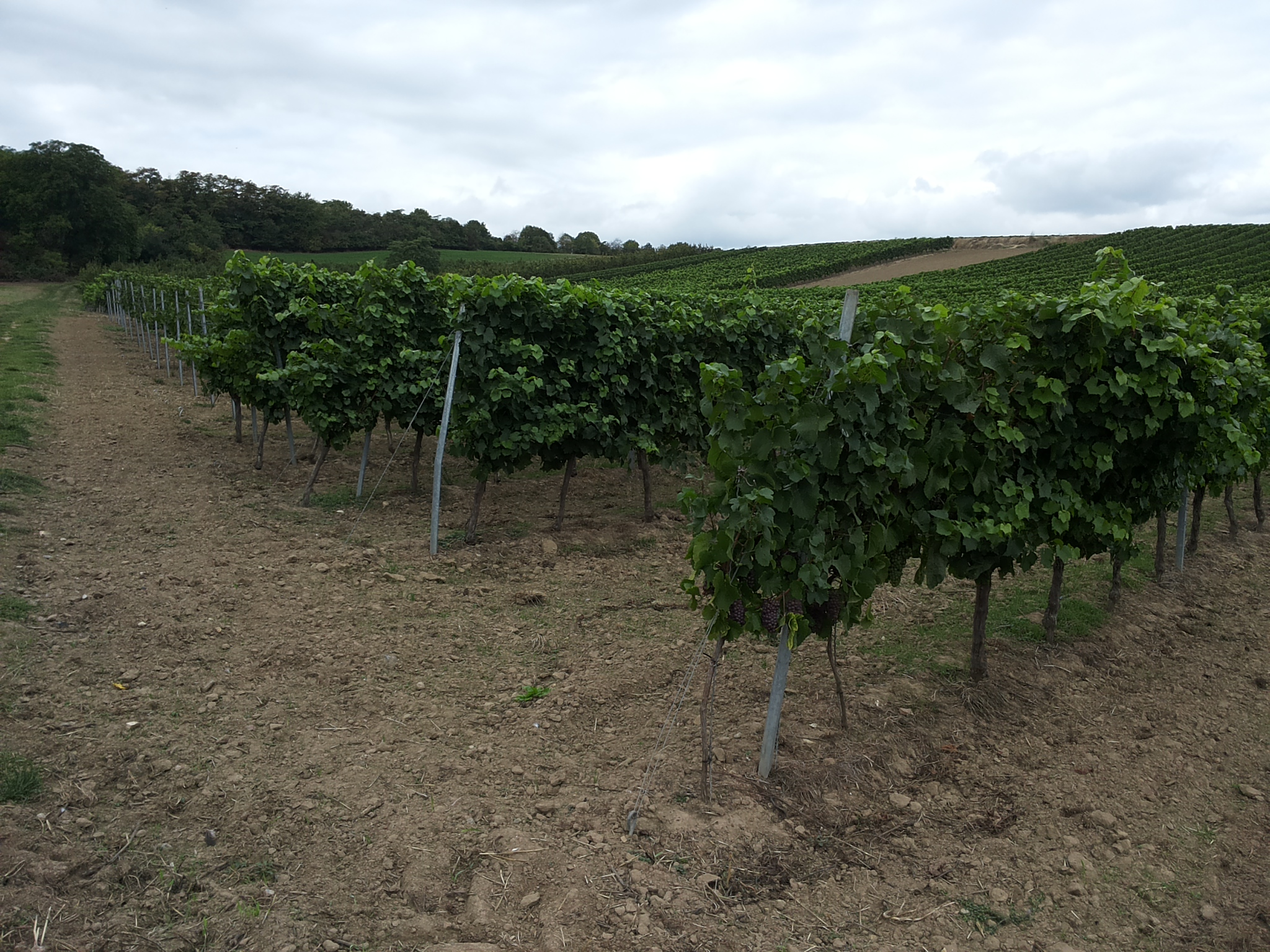 Vineyard Mainz-Bretzenheim